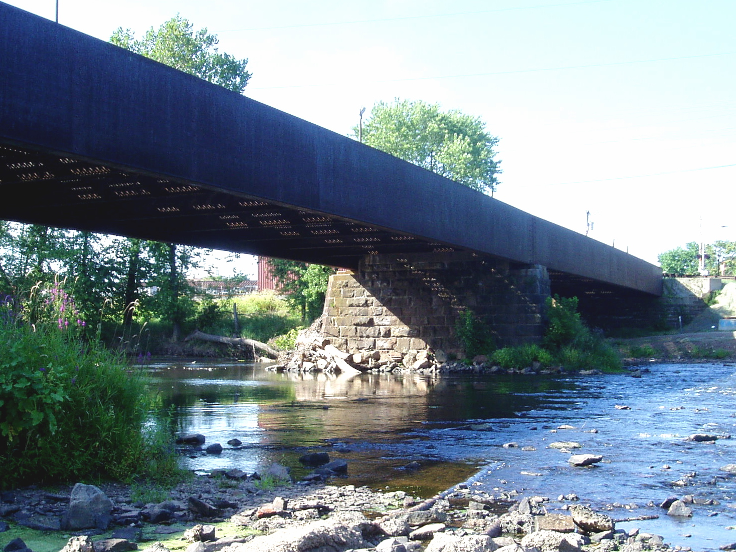 Queen's Bridge over Raritan River by Bound Brook, NJ (2005)